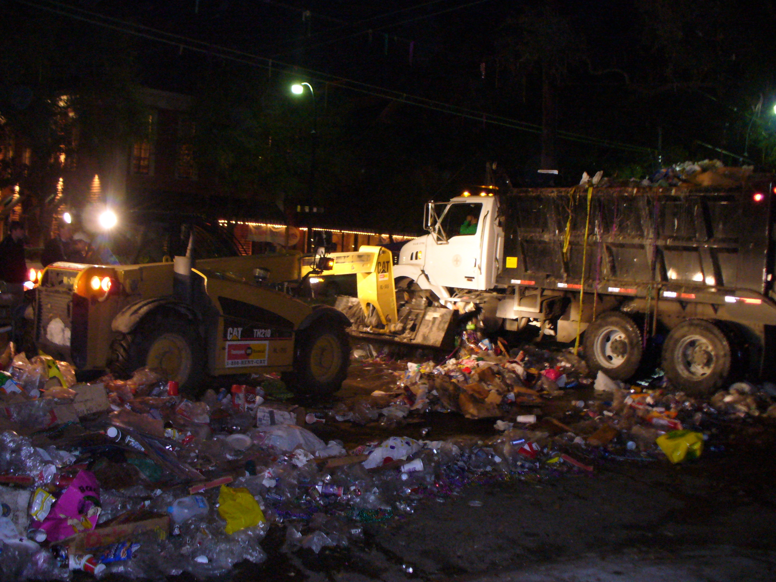 Post-parade, New Orleans Mardi Gras. If you drove down this street two hours later, you'd have no idea of the magnitude of what just happened.